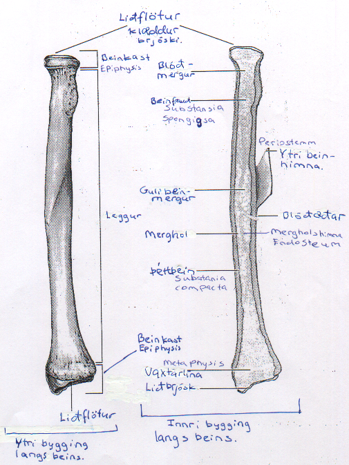 Diagram of the inner structure of long bones.